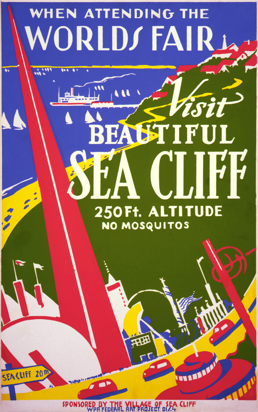 When attending the Worlds Fair, visit beautiful Sea Cliff, 250 feet altitude. No mosquitos! Travel poster promoting Sea Cliff, New York